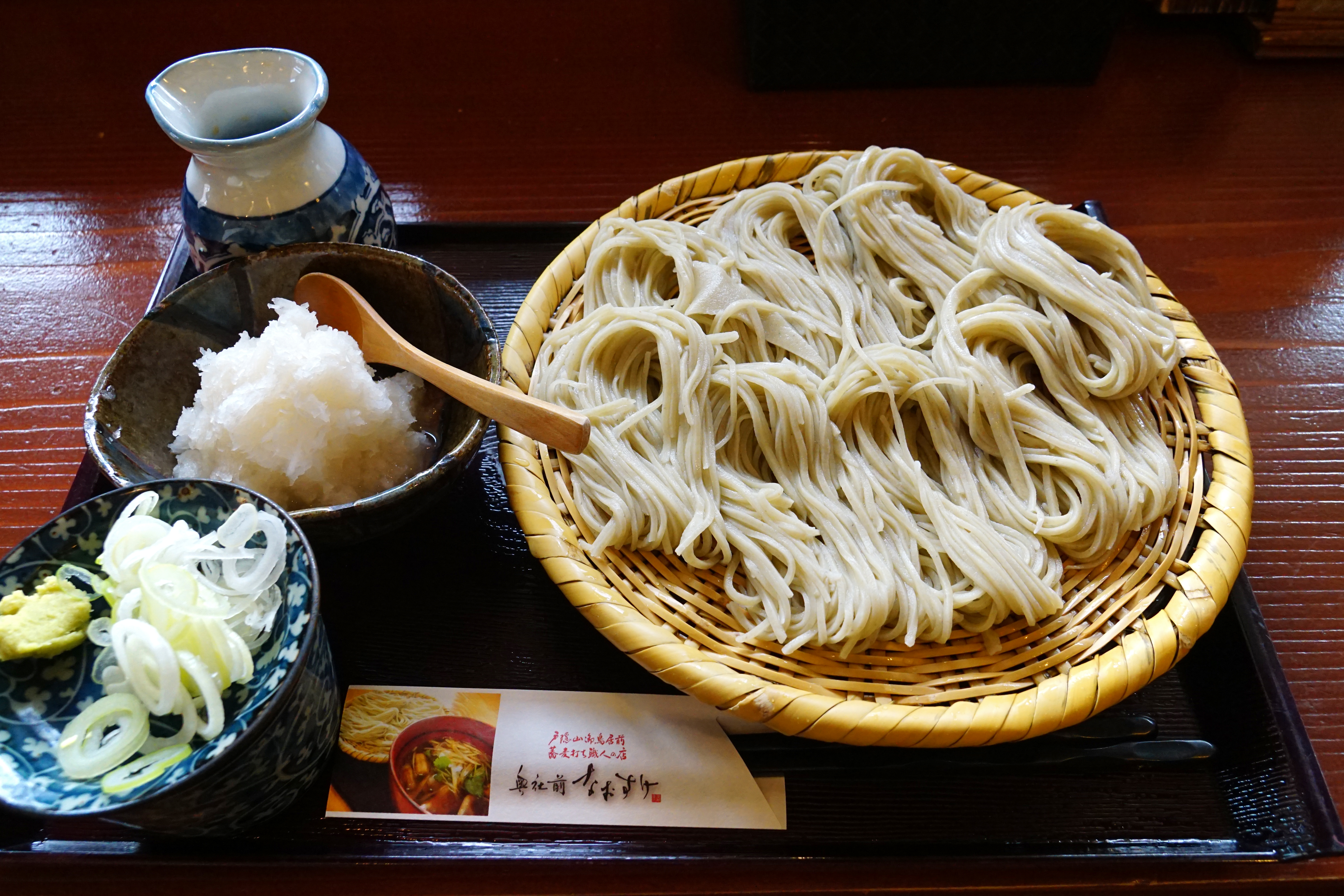 Togakushi soba at Togakushi, Nagano, Nagano prefecture, Japan.